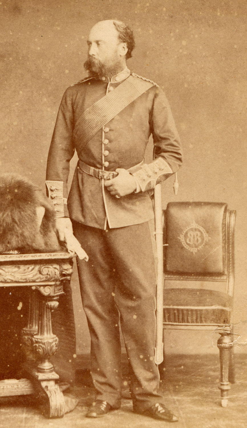 Date circa 1862 in Grenadier Guards uniform